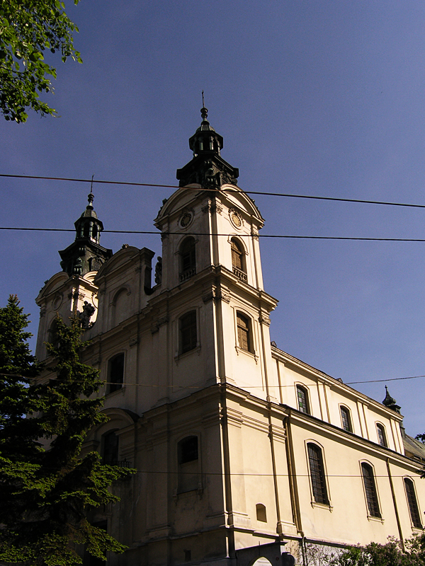 Church of Maria Magdalena